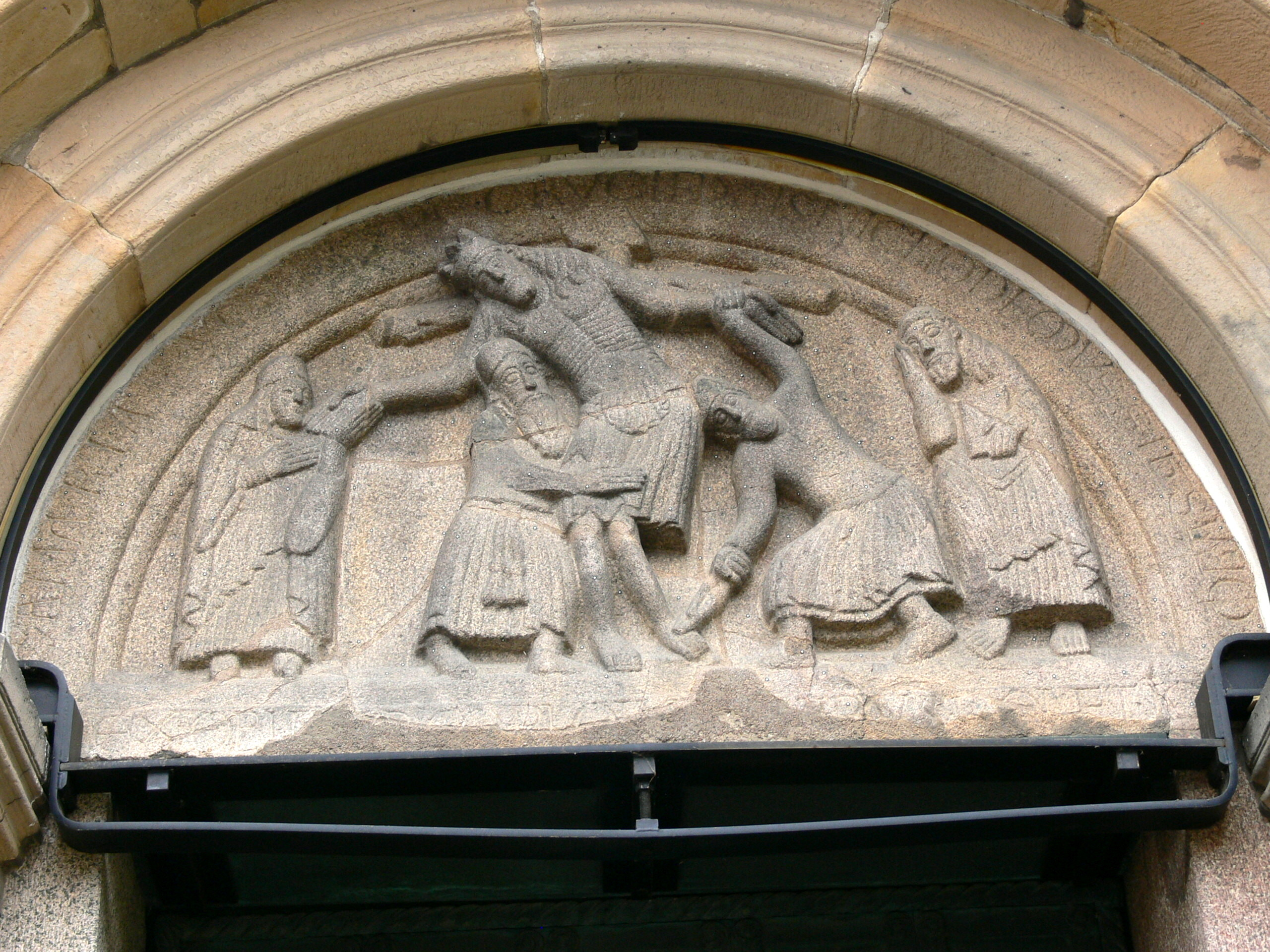 Ribe cathedral. "Cat´s head portal": Romanesque tympanum ( 1175 ) showing Christ´s descent from the cross.